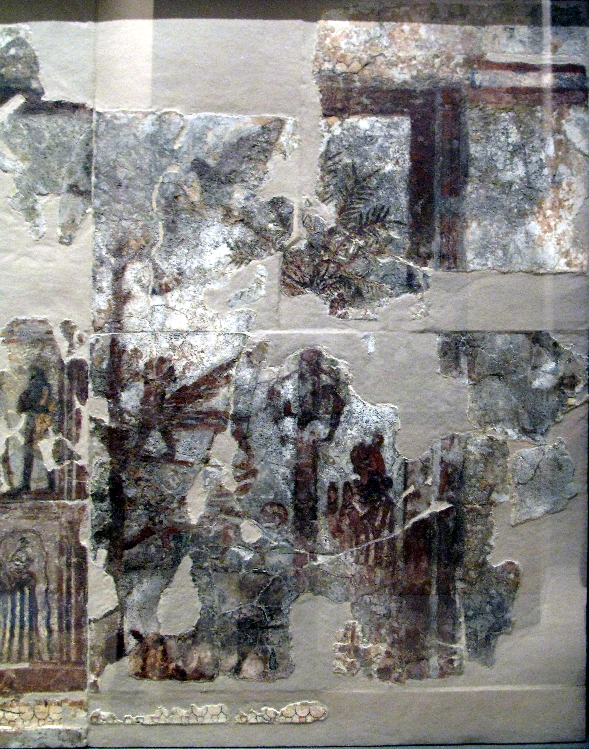 ArtistUnknownDescription Fresco of the investiture of Zimri Lim [1] 19th century BC, Royal palace of Mari Current location (Inventory)Louvre Museum Native nameMusée du LouvreLocationParisCoordinates48° 51′ 37″ N, 2° 20′ 15″ E Established1793Website control : Q19675 VIAF: 257711507 ISNI: 0000 0001 2260 177X ULAN: 500125189 LCCN: n80020283 NLA: 35912436 WorldCat Richelieu Rez-de-chaussée Mésopotamie, IIe et Ier millénaires avant J.-C. Salle 3Accession numberAO 19826Credit lineFound by A. Parrot, 1935 - 1936Source/PhotographerRama Fresco of the investiture of Zimri Lim [1] 19th century BC, Royal palace of Mari